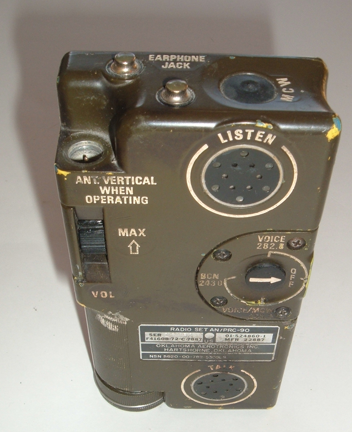 AN/PRC-90 rescue radio, front view. Airband radios transceiver 243 MHz ; 282,8 MHz The basic specifications are as follows. 400 mW output power in voice mode, 243 MHz or 282.8 MHz. 500 mW output power in MCW or Beacon mode, 243 MHz only. Rx sensitivity, 2.5 uV.